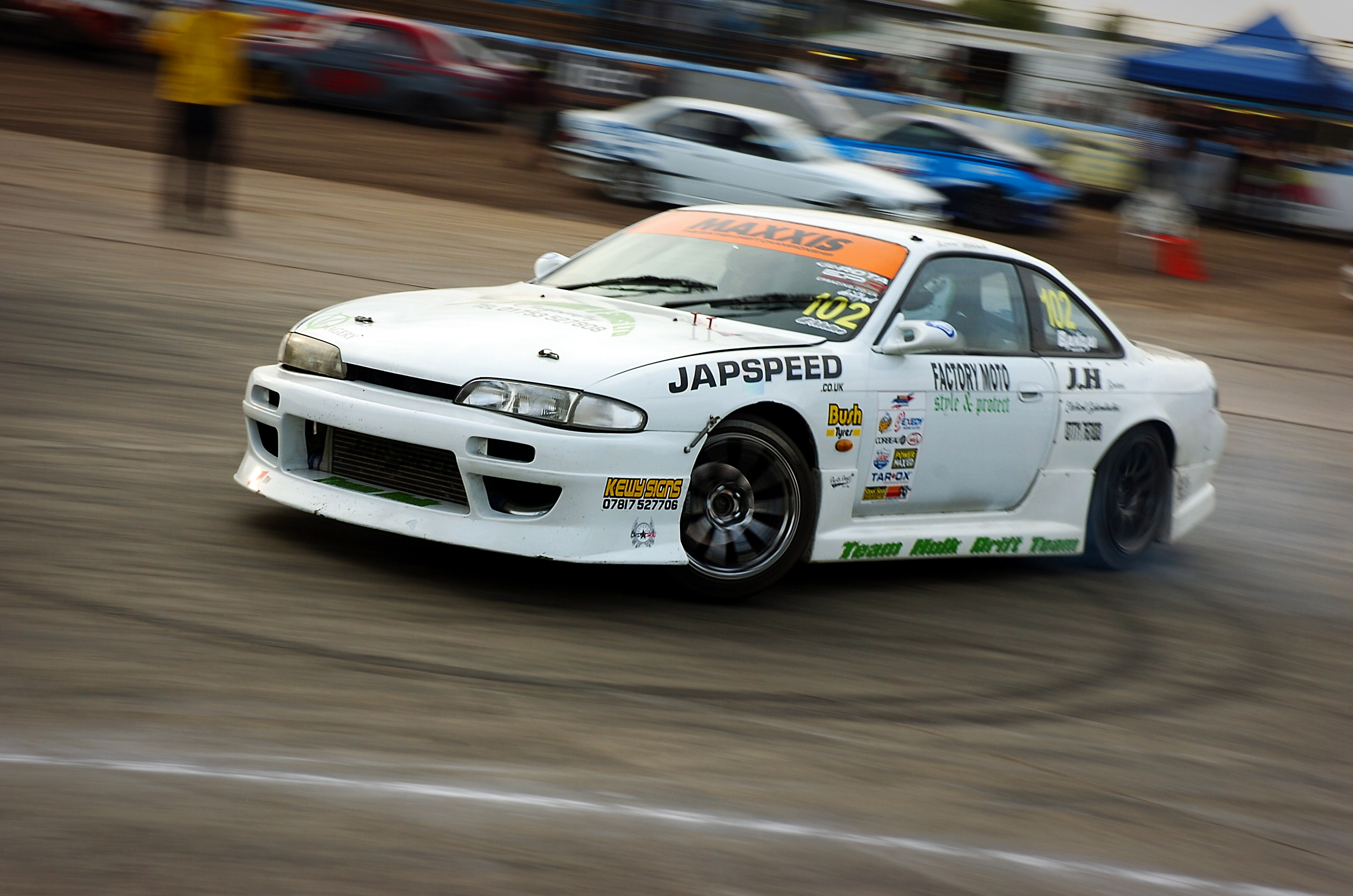 RLewis Mitchell, Norfolk Arena Drift Team, 2014-07-05.